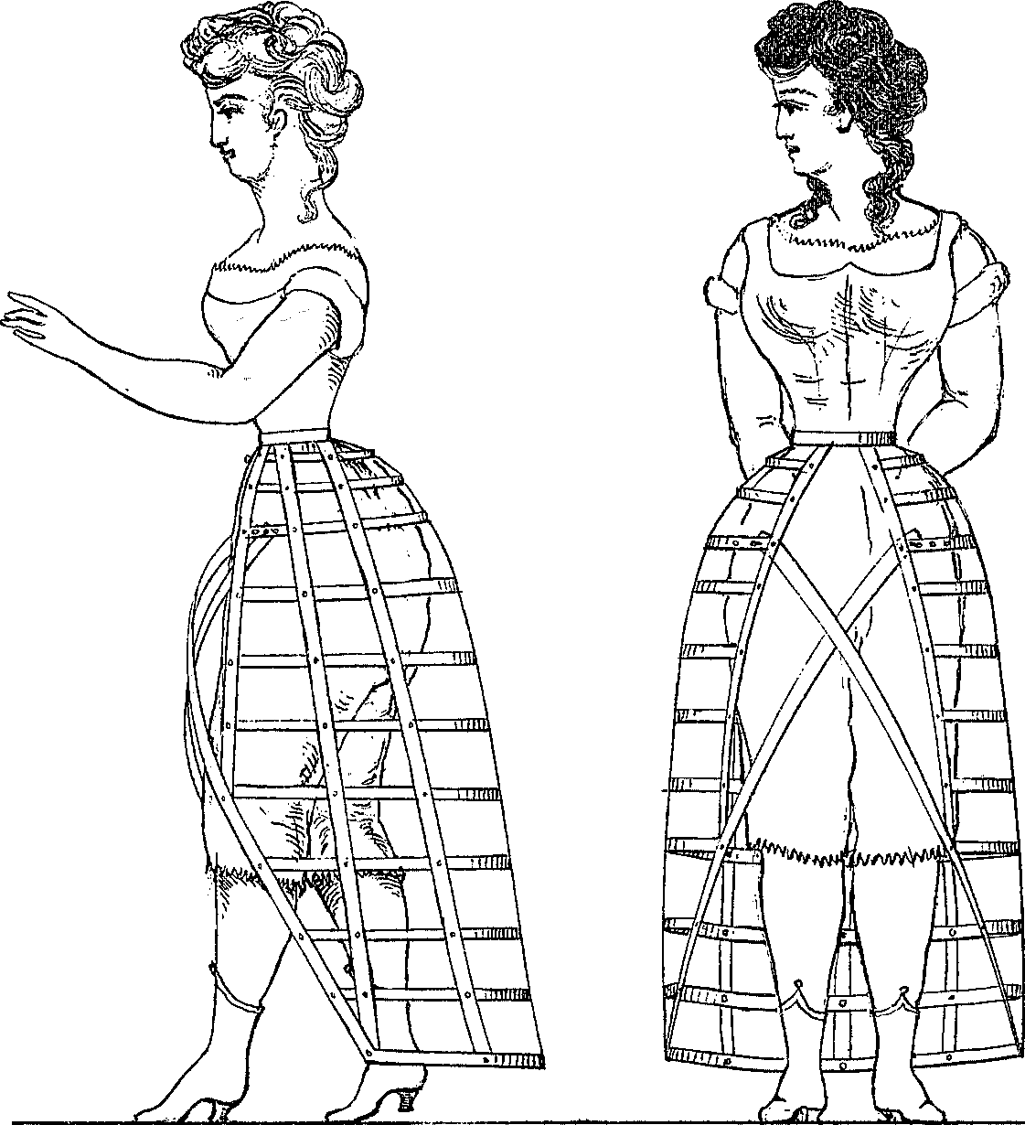 Design for a crinolette, 1872